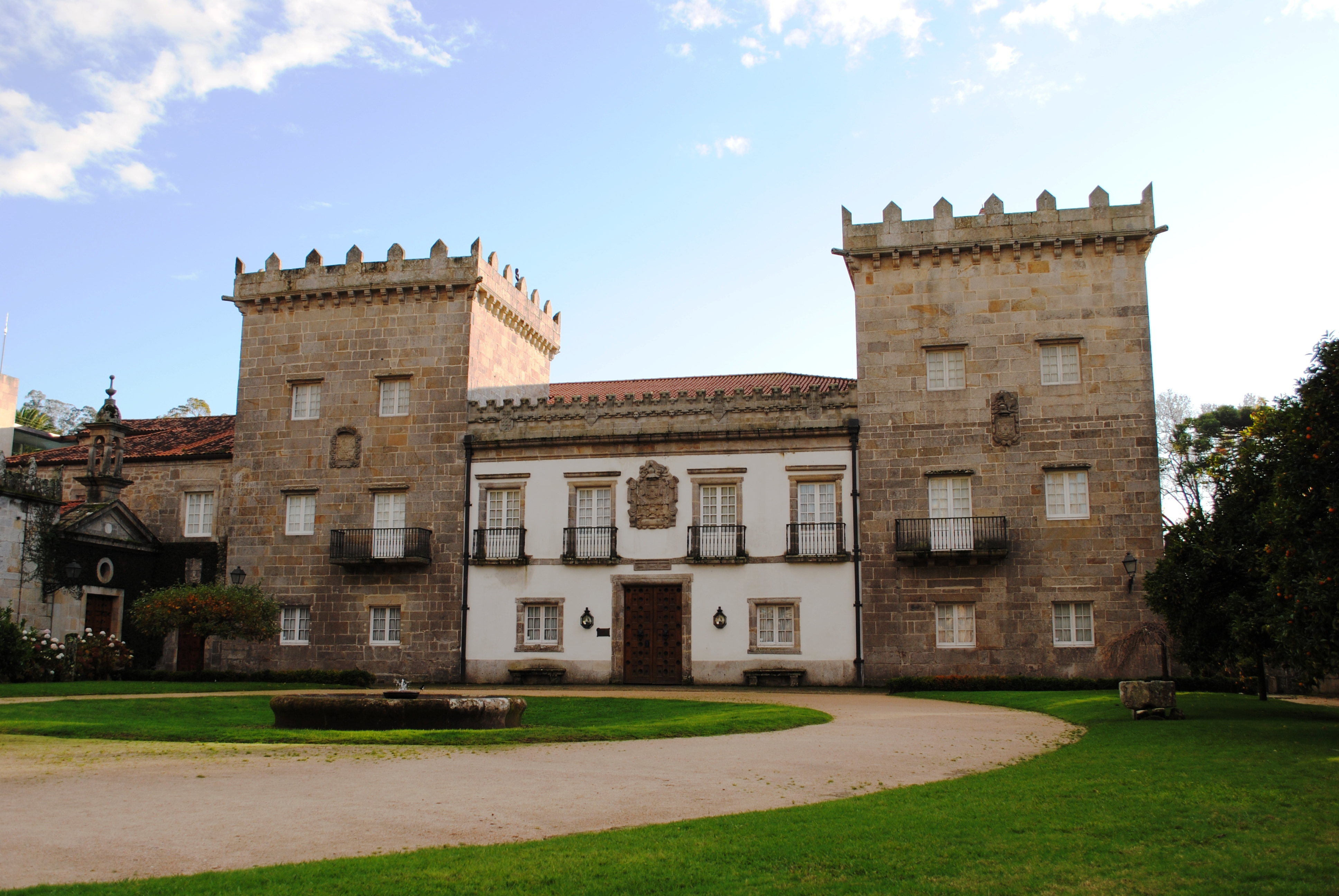 (Inventory)Museo Quiñones de León Native nameMuseo Quiñones de LeónLocationVigo, (Spain)Coordinates42° 12′ 48″ N, 8° 43′ 39″ W Established1937WebsiteMuseodeVigo.orgAuthority control VIAF: 153037104 ISNI: 0000 0001 1942 4522 LCCN: n80081298 GND: 1090863-8 SUDOC: 118953958 WorldCat